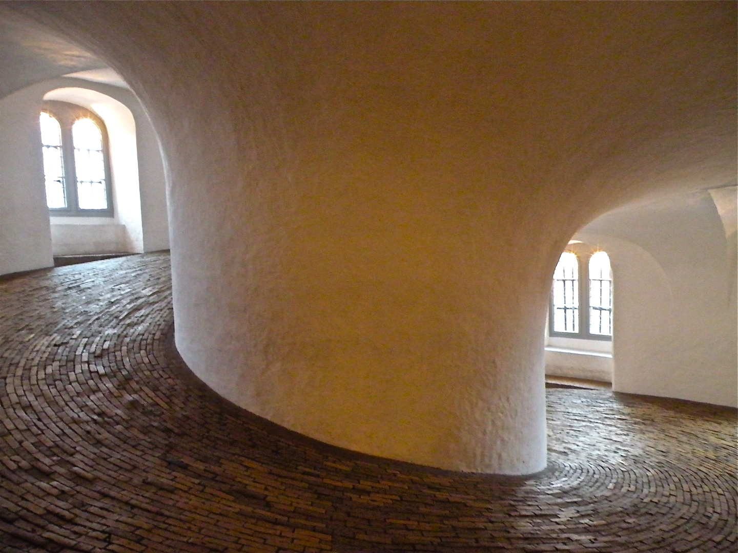 The helix ramp in the Round Tower in Copenhagen, Denmark